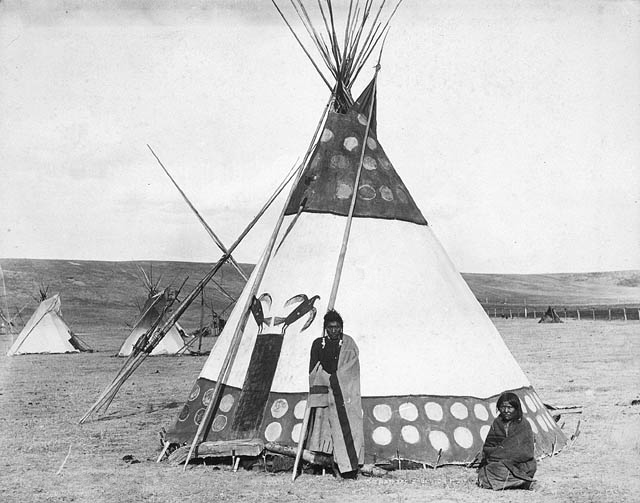 Portrait of Tsuu T'ina (Sarcee) man, Assinaitappi, and his wife